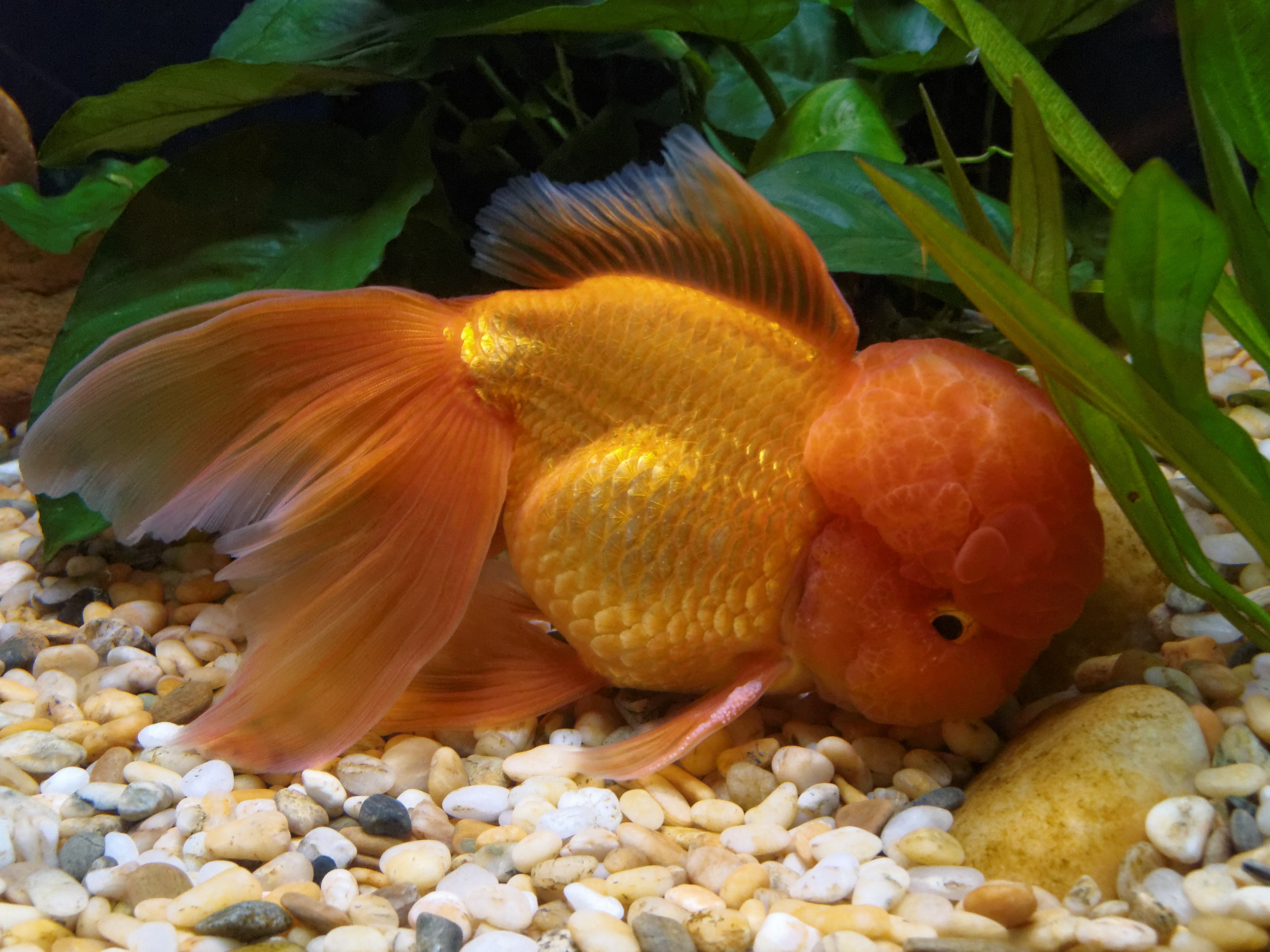 Single colored orange Oranda goldfish